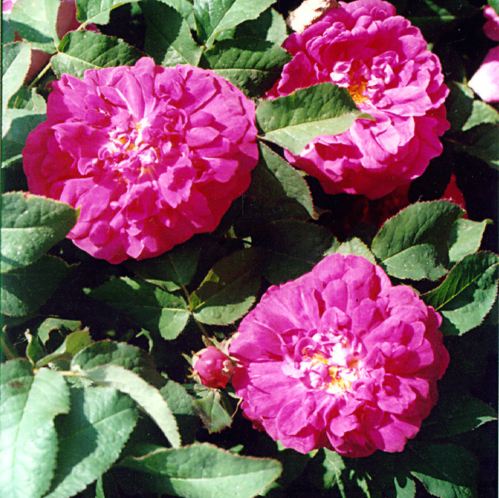 Old Garden Rose Portland group